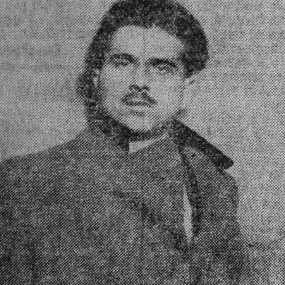 Nicolae Constantinescu